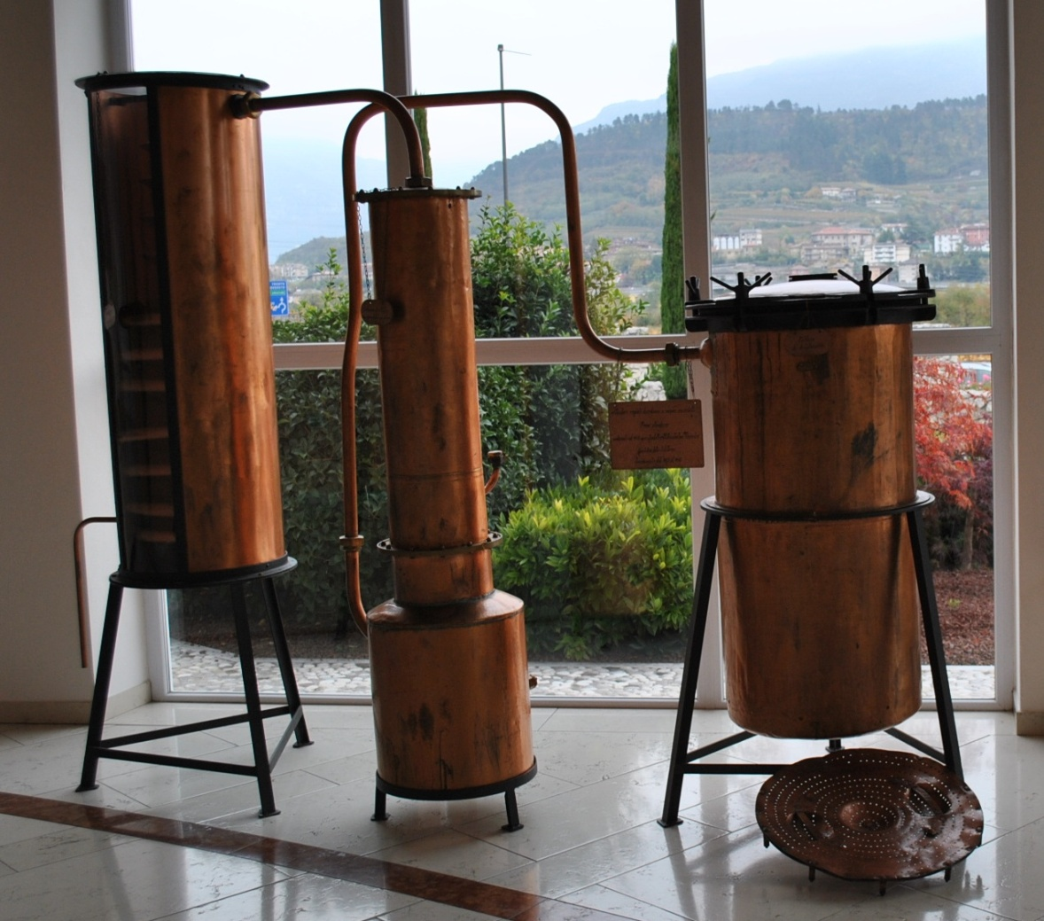 Distilling apparatus for grappa in use in Trentino, Italy during the 60s. From Distilleria Marzadro.